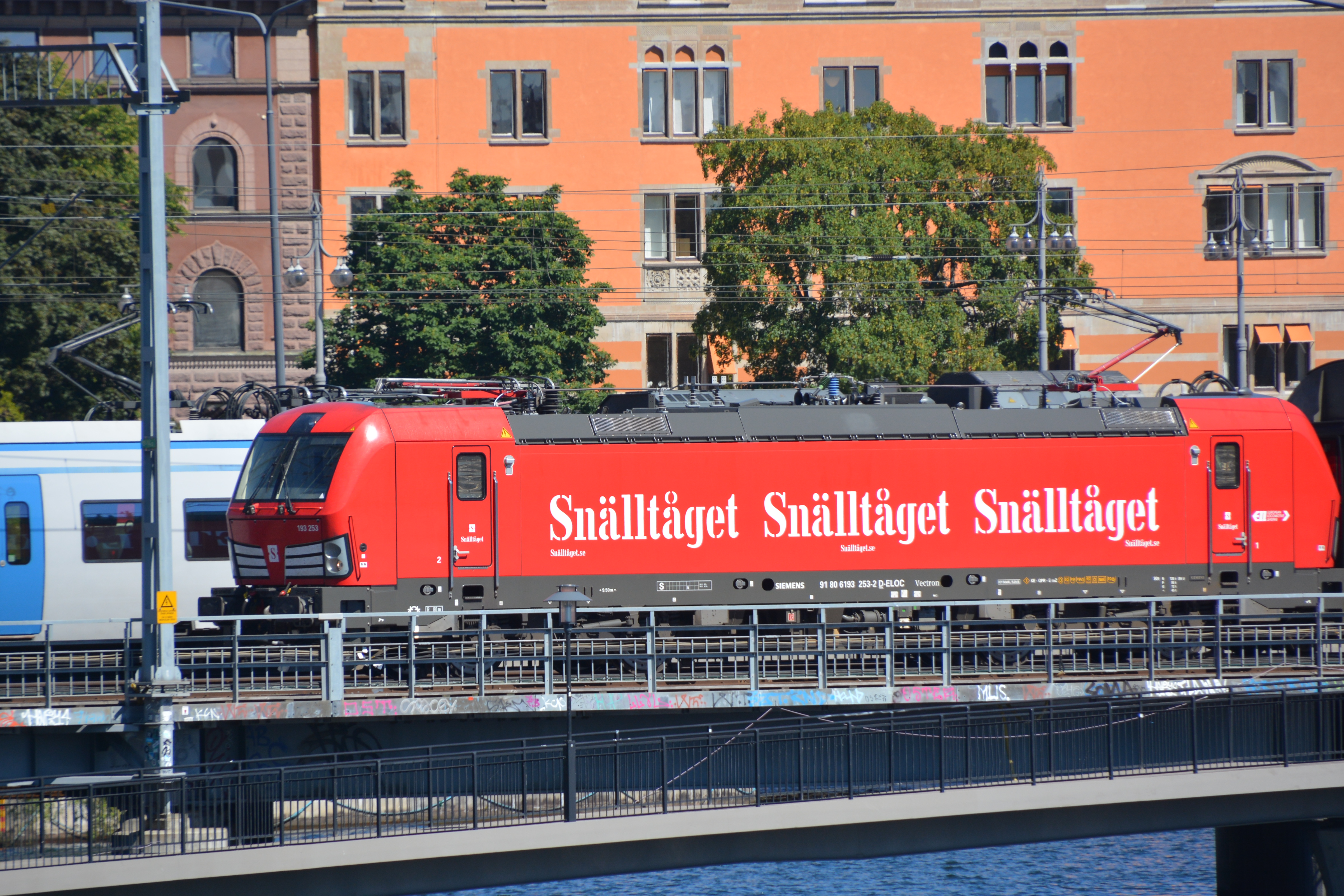 Siemens Vectronlok, tillhörande Snälltåget, vid Stockholms centralstation